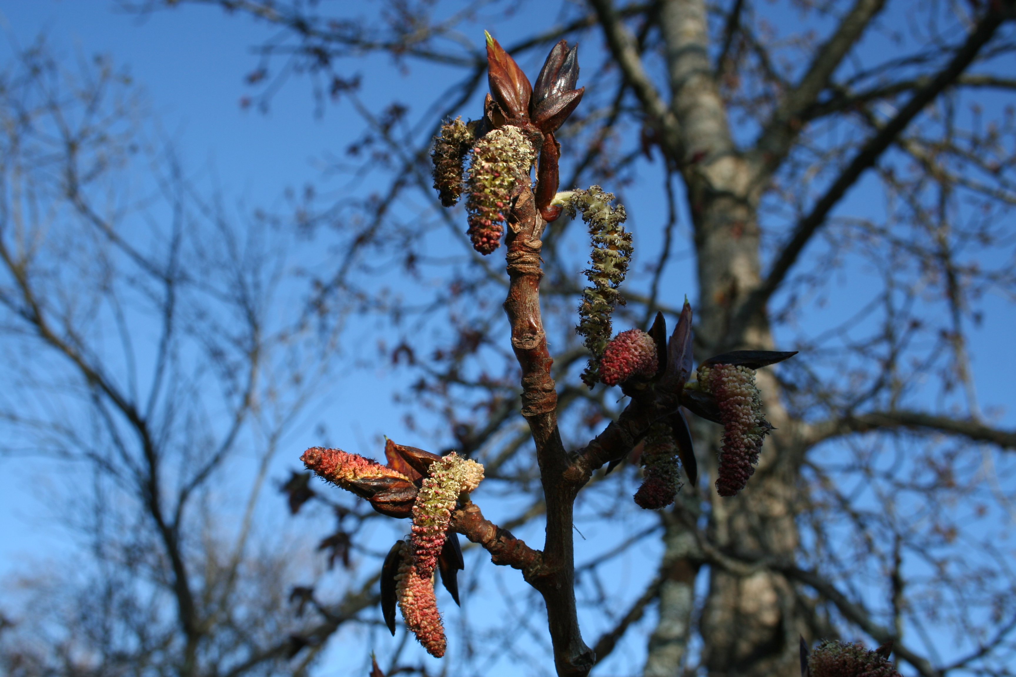 Catkins and buds of Populus balsamifera. Oulu University Botanical Gardens, Finland.